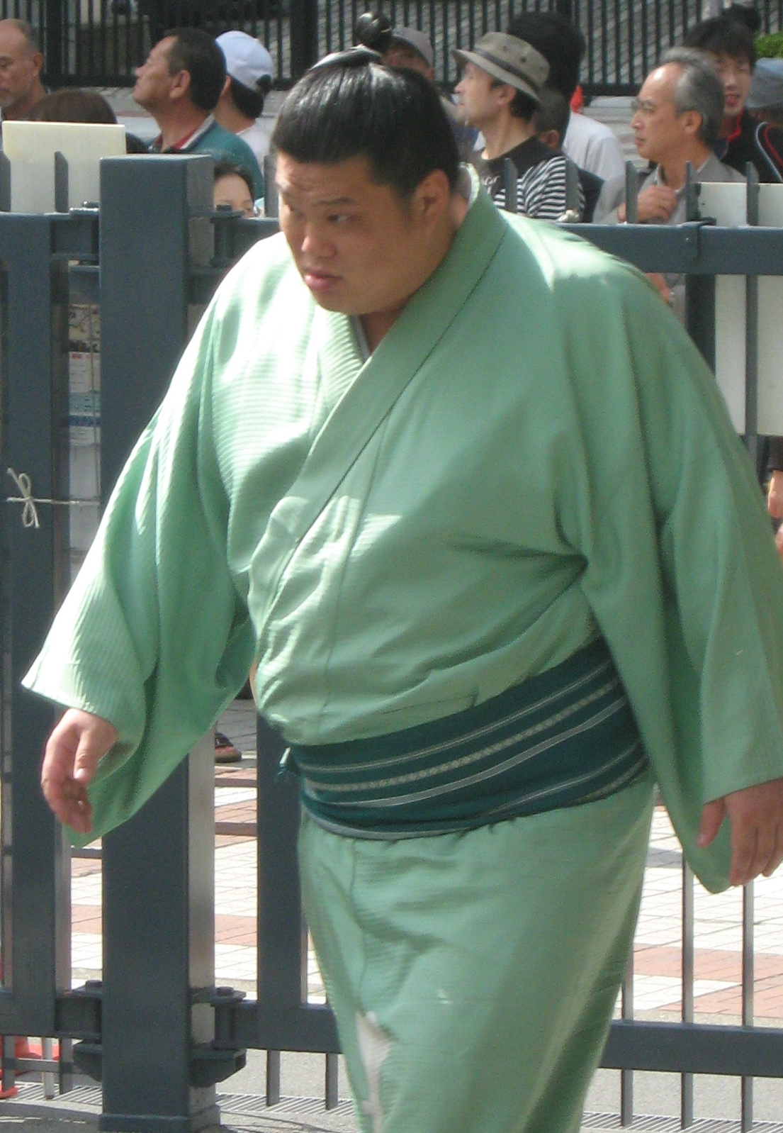 Taken at Sep 2008 tournament